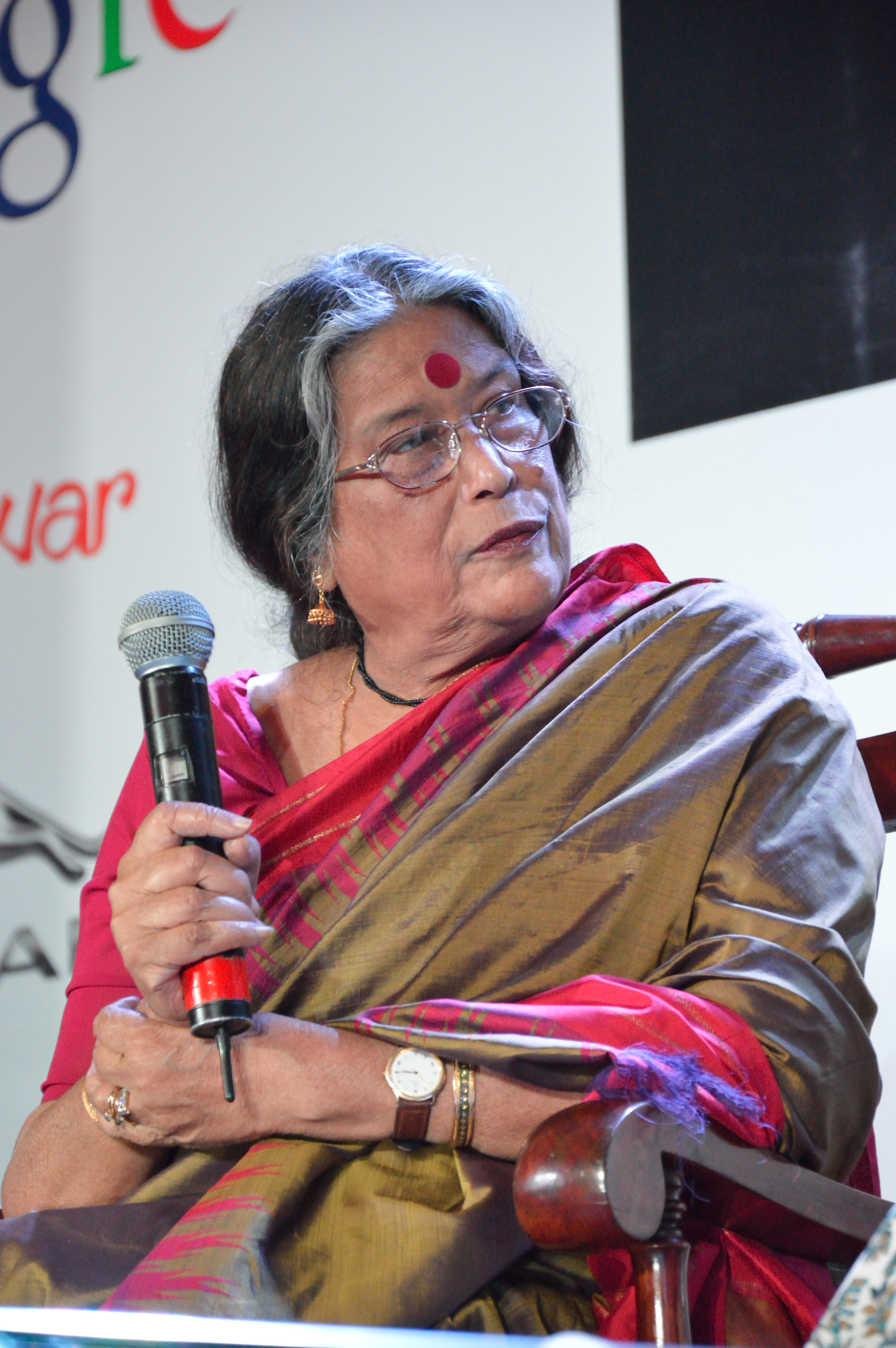 Nabaneeta Deb Sen is one of the most versatile female Bengali writers in India today. She has published more than 80 books in Bengali, which include novels, short stories, plays, literary criticism, personal essays, travelogues, humour writing, translations and children’s literature. Her first collection of poems, Pratham Pratyay, was published in 1959. Ami Anupam, her first novel, was published in 1976. Some of her other well-known works are Bama-bodhini, Nati Nabanita, Srestha Kabita and Sita Theke Suru. She is widely respected in the academia as well, and has a Masters degree from Harvard University and a PhD from Indiana University. She has received many awards including the Celli Award from the Rockefeller Foundation and the Sahitya Akademi Award. Deb Sen lives in Kolkata and has three daughters, two with former husband Amartya Sen. This shot was taken during the annual 'Kolkata Literary Meet 2013' was a part of the 'International Kolkata Book Fair 2013' held at the Milan Mela ground. It is a five day talk and interaction with general public of renowned persons from India and abroad.